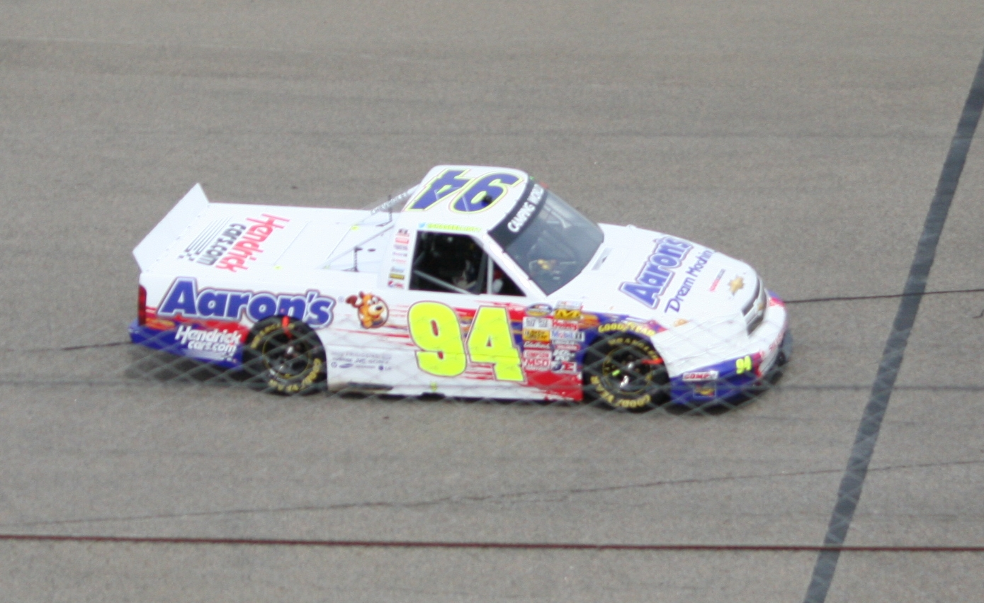 Chase Elliott drives the No. 94 Aaron's Chevrolet for Hendrick Motorsports during the North Carolina Education Lottery 200 at Rockingham Speedway, Rockingham, NC, April 14, 2013